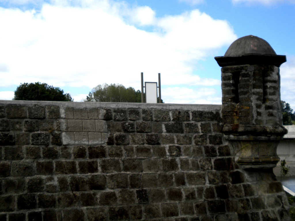 Fort Queen Louise: it was designed and built in 1794 by the Captain of the Royal Engineers don Manuel Olaguer Feliú.